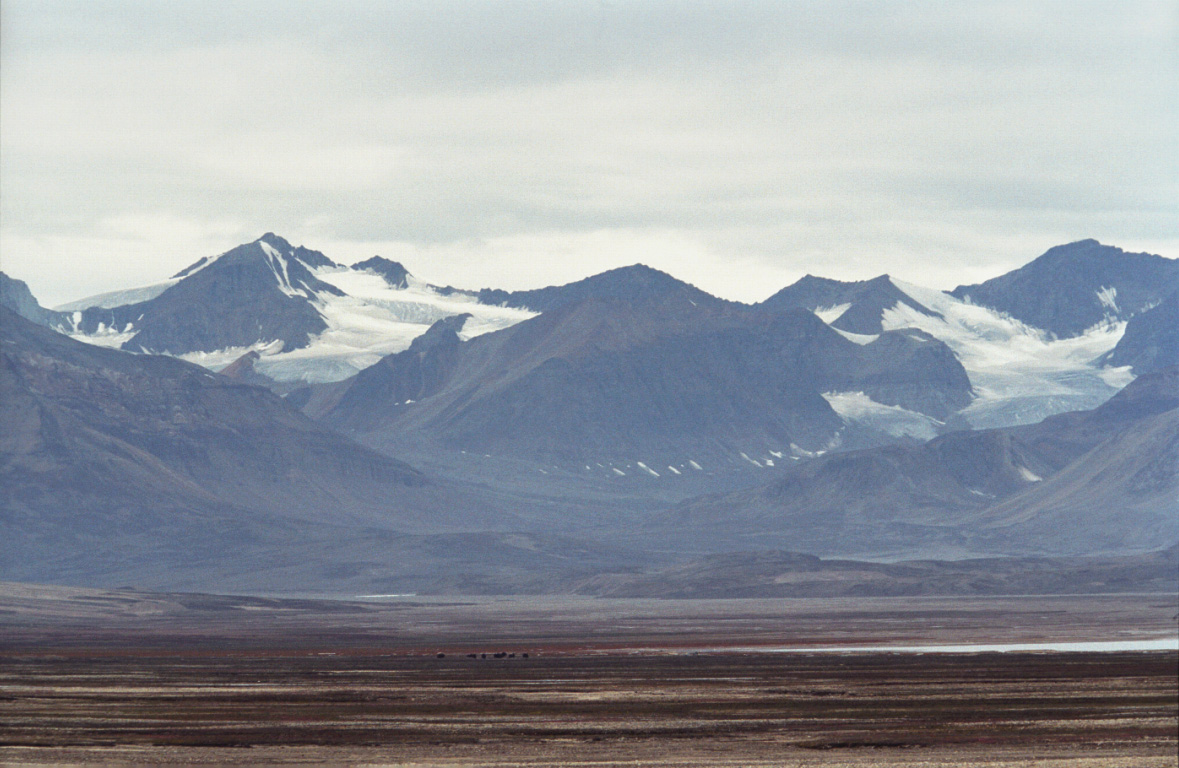 Greenland, Antarctic Havn, southern shore of King Oscar Fjord (remains of an early 20th century trapper’s cabin)